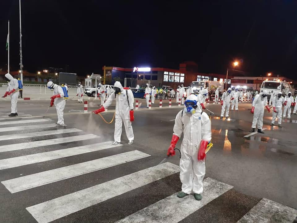 This is an image with the theme "Africa on the Move or Transport" from: Ivory Coast